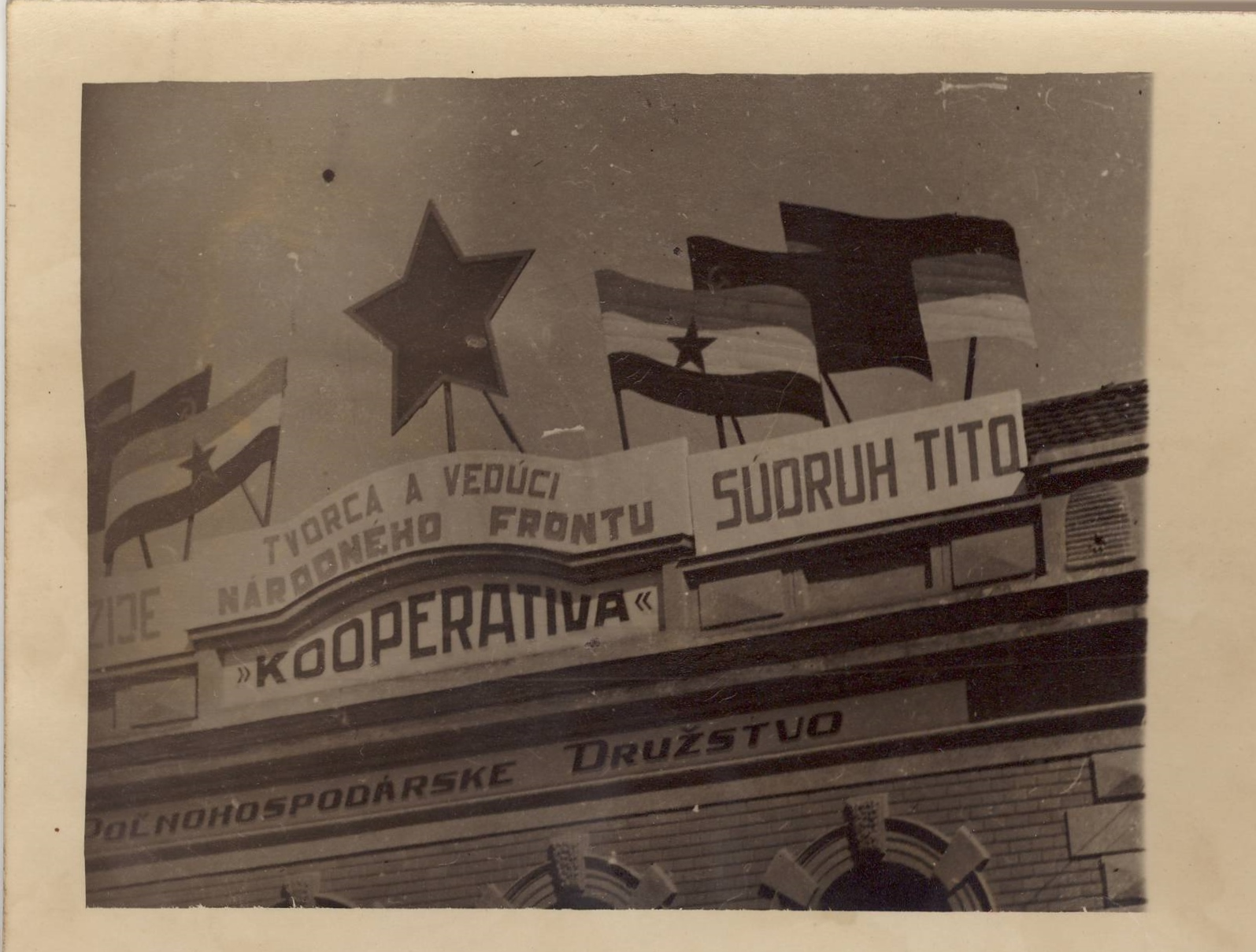 Company sign of "Kooperativa", a company from Bački Petrovac specialized in the import and export of hops. Inventory number 1720. Srpski (latinica): Znak preduzeća "Kooperativa" iz Bačkog Petrovca, specijalizovanog za uvoz i izvoz hmelja. Inventarski broj 1720.